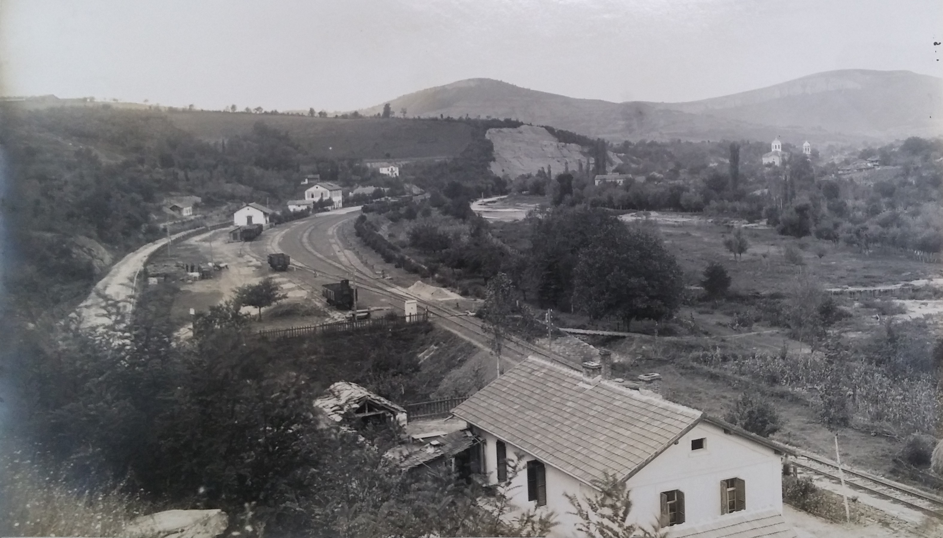 Construction of the railway line Veliko Tarnovo - Tryavna - Borushtitsa. Dryanovo station.